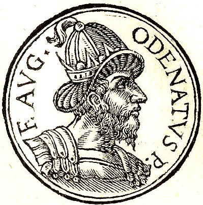 Lucius Septimius Odaenathus was a ruler of Palmyra, Syria and later of the short lived Palmyrene Empire, in the second half of the 3rd century.